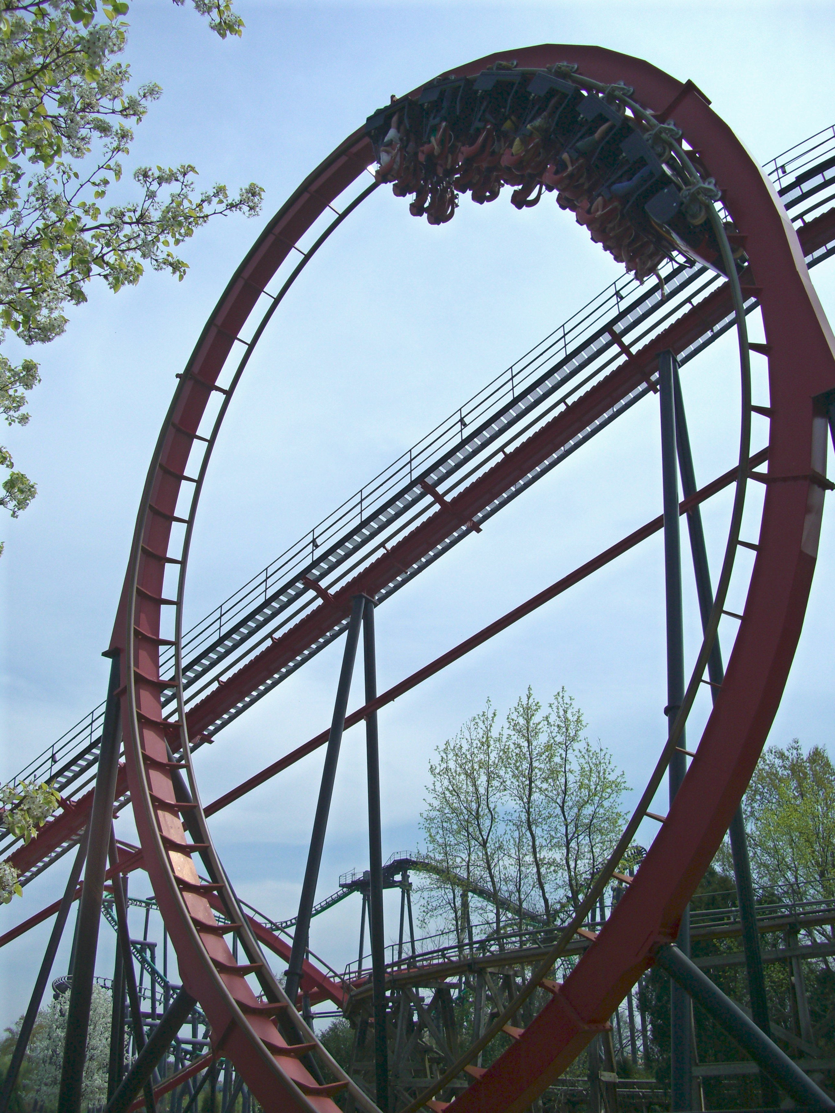 Vortex's loop at Carowinds.